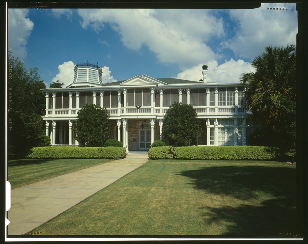 Headquarters of the Department of Texas Commanding Officer's Quarters / Pershing House — Fort Sam Houston, San Antonio, Texas. Listed on the national Register of Historic Places. Historic American Buildings Survey—HABS image.